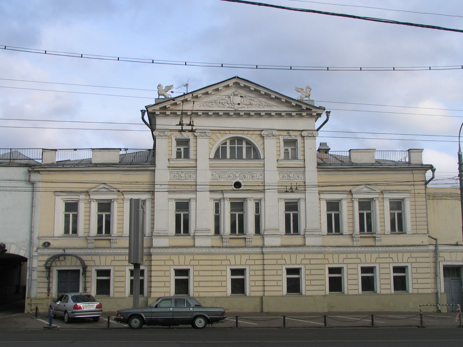 The famous Russian actor and director Constantin Stanislavski (who co-founded the Moscow Art Theatre) lived in this house between 1903-1921.